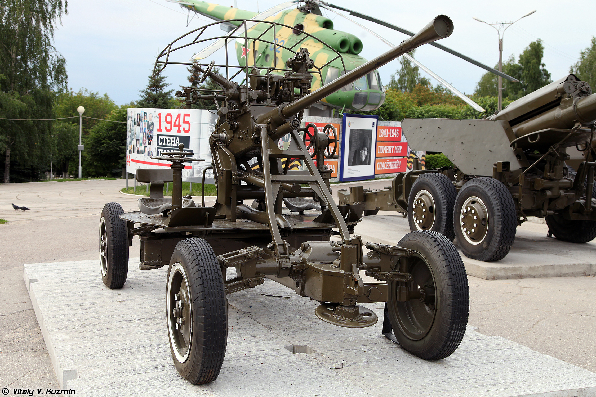 37mm automatic air defense gun 61-K M1939